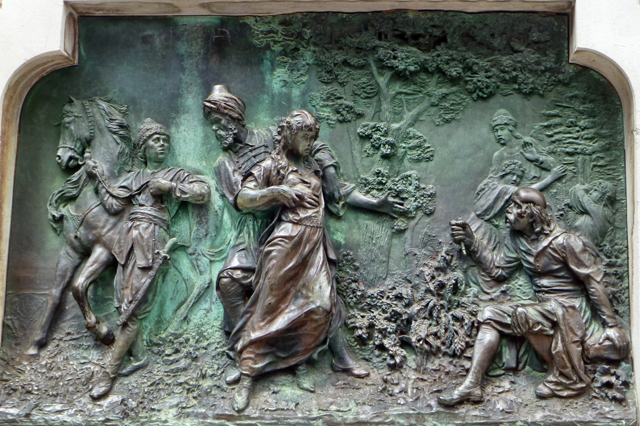 Statue of Ivan Gundulić, the most famous poet of Dubrovnik, Croatia; by the sculptor Ivan Rendic (1892); decorated with bronze scenes from his epic poem "Osman"; a scene from the ninth canto where Sunčanica is taken to the Sultan's harem